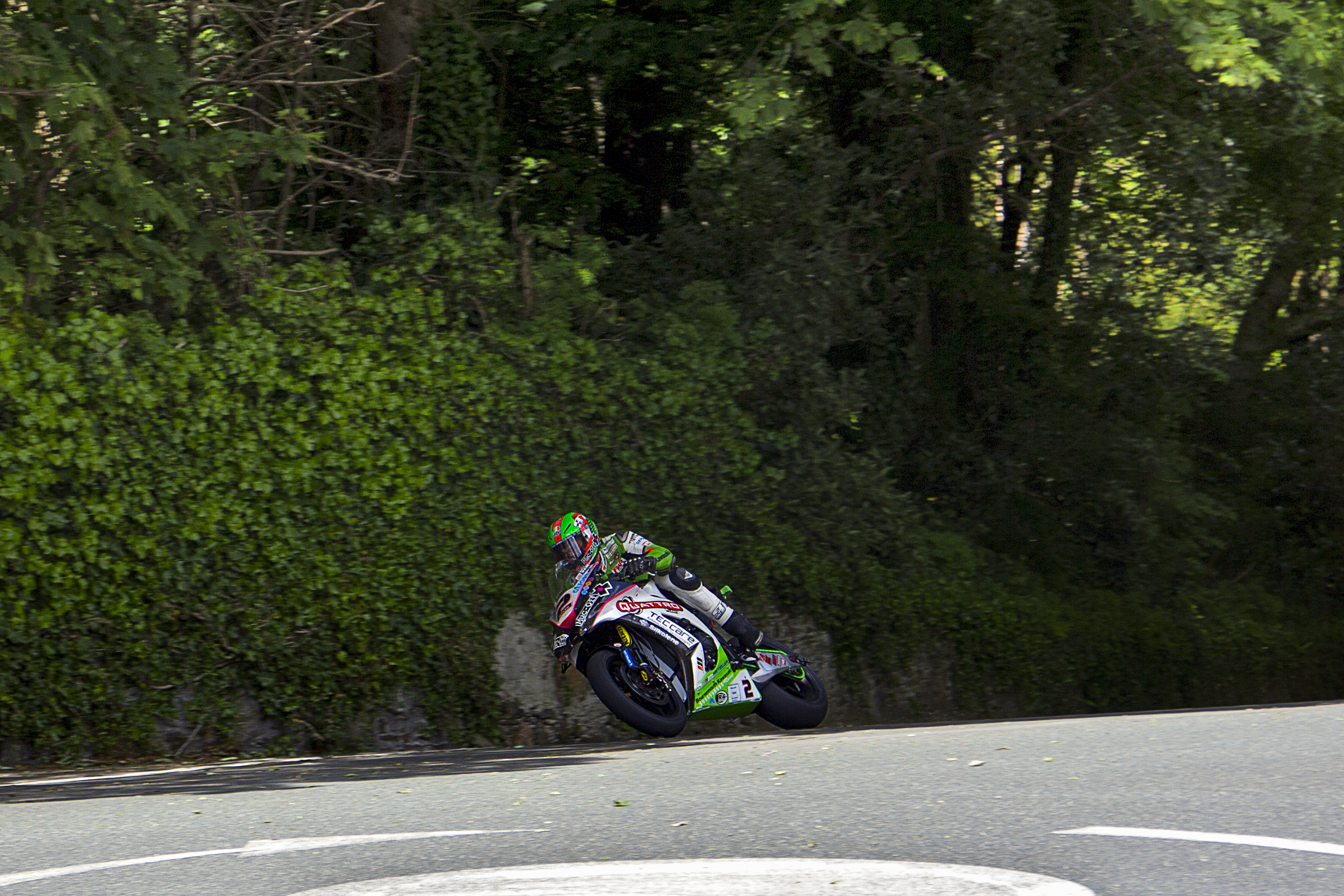 James Hillier exiting Governor's Dip from adjacent Governor's Bridge during the 2015 Superbike race, a dark area with a heavy tree-canopy traditionally requiring careful riding to avoid a low-speed spill due to damp road conditions on a piece of 'highway' - part of the original TT course - from which 'normal' traffic is now prohibited by means of removable posts set into the surface